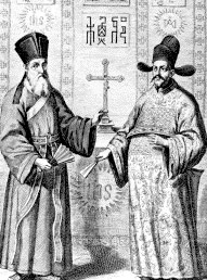 Matteo Ricci (Li Madou) and Xu Guangqi. From: Athanasius Kircher: China Illustrata, 1667